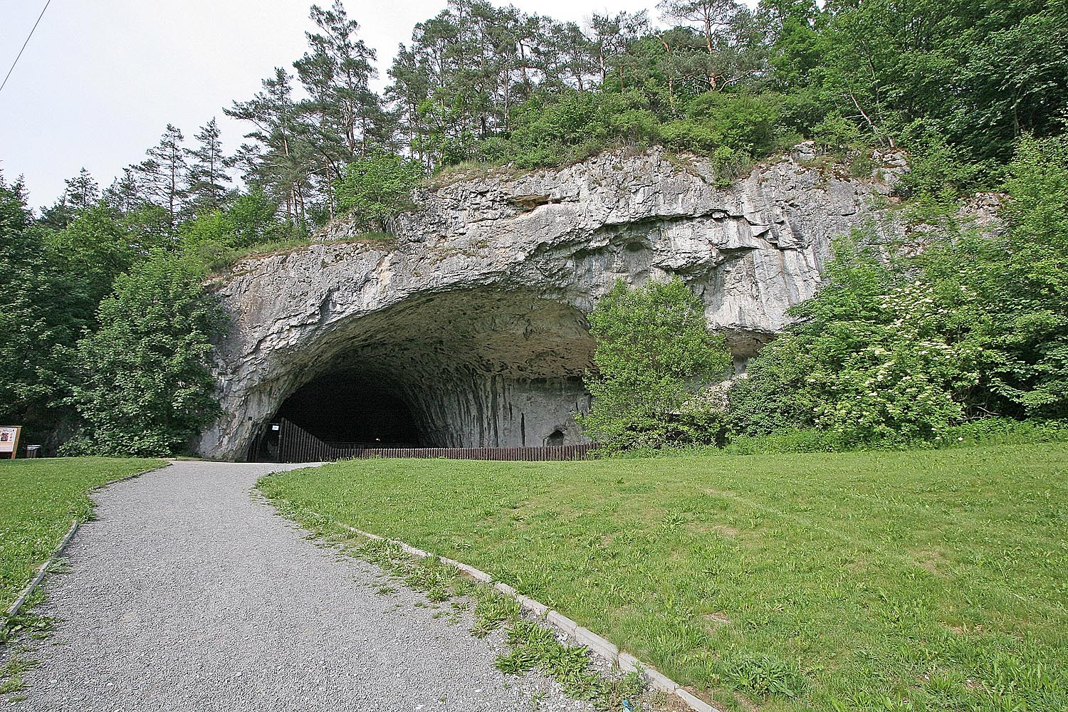 Entrance of Kůlna Cave in Moravian Karst near town of Sloup, Czech Republic